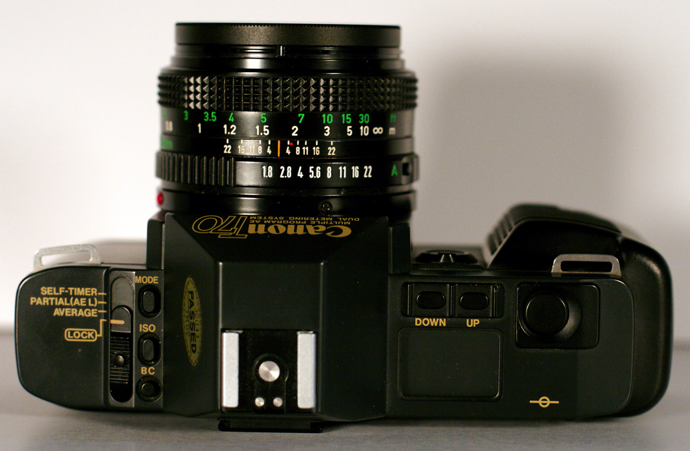 Top view of Canon T70 35mm SLR camera.